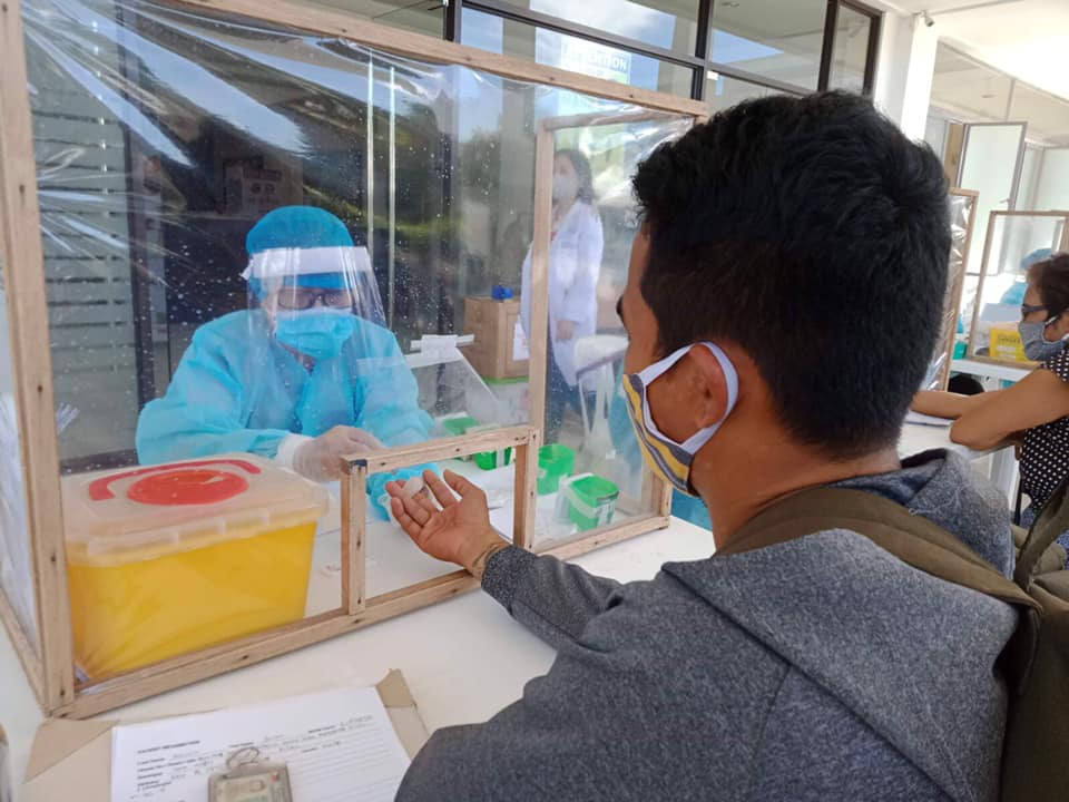 Expanded and Targeted Testing is also being conducted at the Casimiro A. Ynares Sr. Memorial Hospital near the boundary of San Mateo and Montalban, Rizal. (Image from the Province of Rizal/Rizal PIO) Tagalog: Nagsagawa rin ng Expanded and Targeted Testing sa Casimiro A. Ynares Sr. Memorial Hospital sa boundary ng San Mateo at Montalban, Rizal. (Larawan mula sa Lalawigan ng Rizal/Rizal PIO)